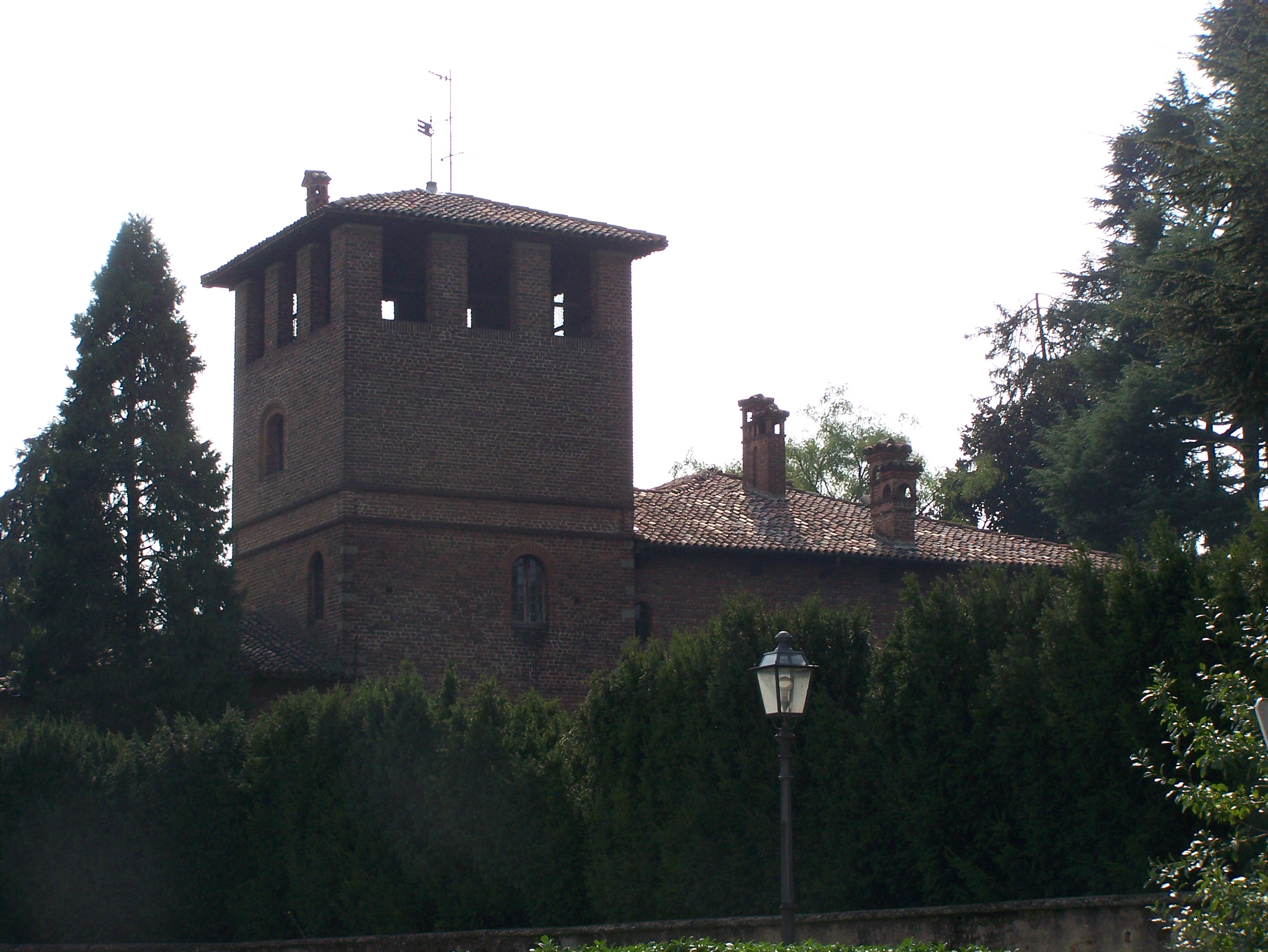 Castelletto in Corbetta (MI) - Italy